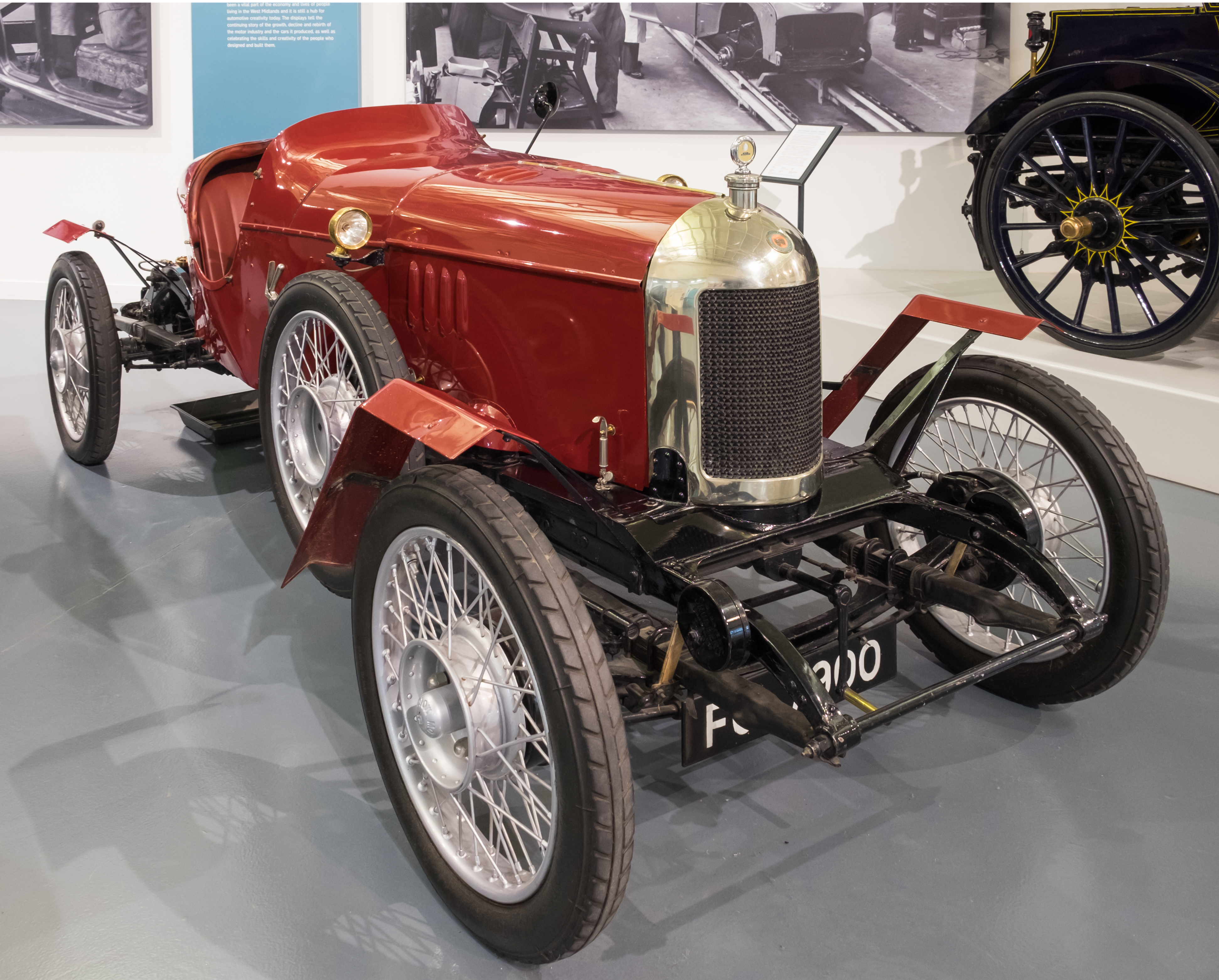 The 1925 MG 'Old Number One'. This car, with registration mark FC 7900, is now kept at the British Motor Museum, Gaydon, UK.